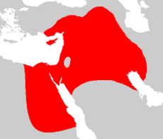 Neo-Assyrian empire at its greatest extent during Ashurbanipal's reign